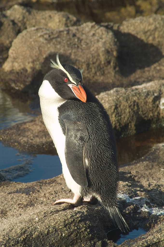 Snares Crested Penguin (Eudyptes robustus) Author: Thomas Mattern Institution: Department of Zoology, University of Otago, Dunedin, New Zealand Image date: 24.10.2004 Image location: Snares Islands, North East Island, Station Cove